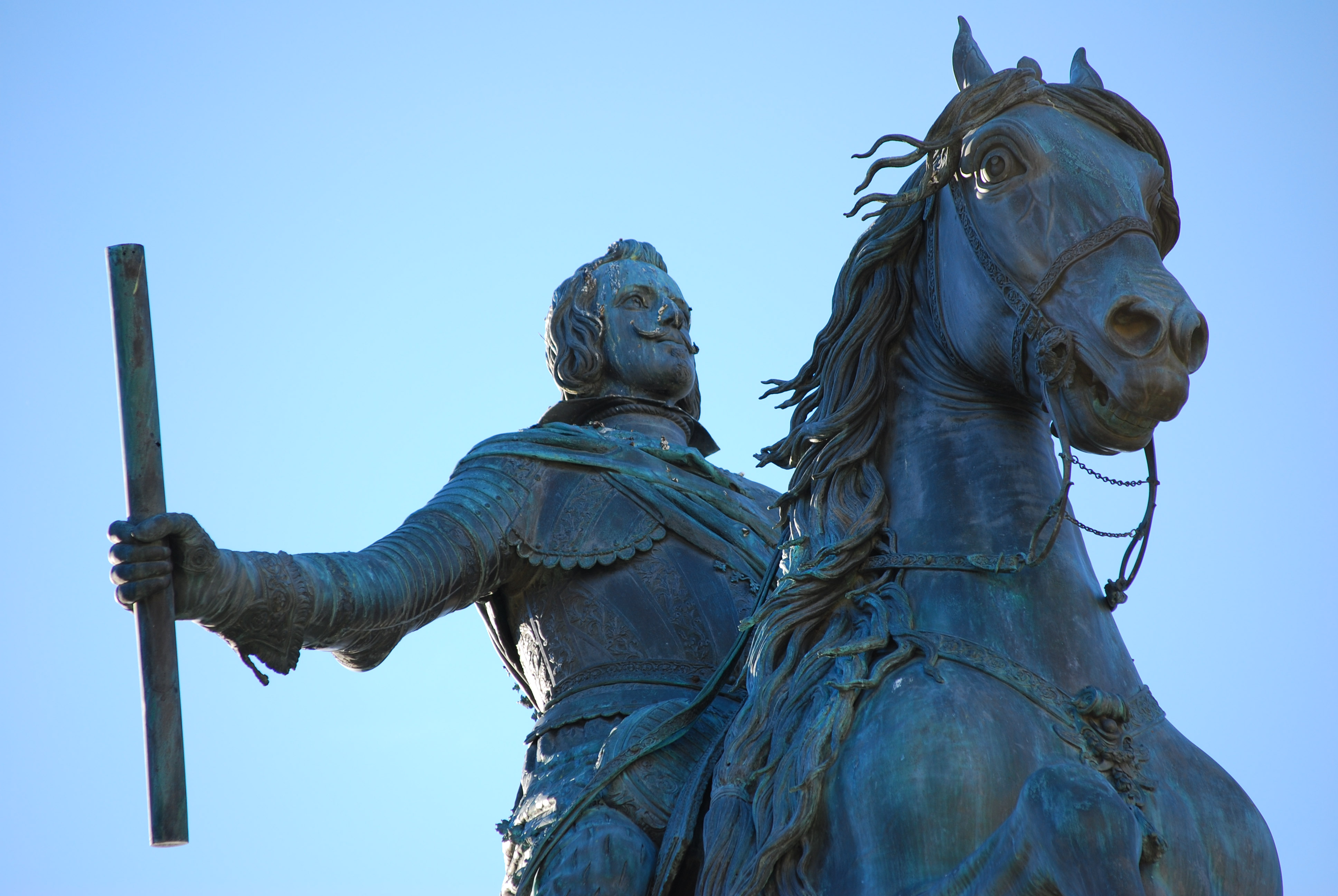 Partial view of the bronze equestrian statue of Philip IV of Spain (1605–1665) made by Pietro Tacca (1577–1640) between 1634 and 1640. It´s part of the monument at the Plaza de Oriente (square) in Madrid (Spain) inaugurated in 1843.